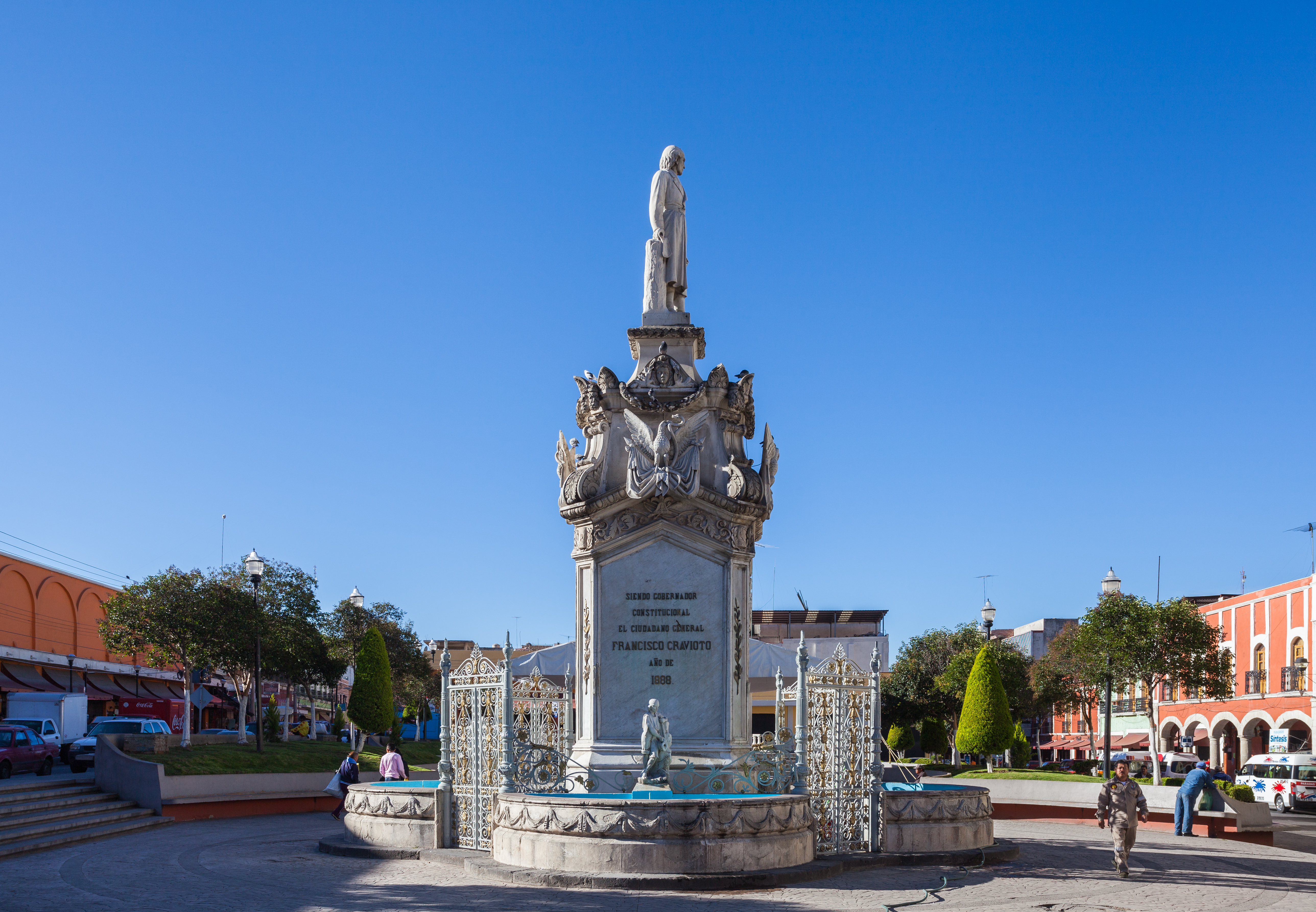 Plaza de la Constitución, Pachuca, Hidalgo, Mexico